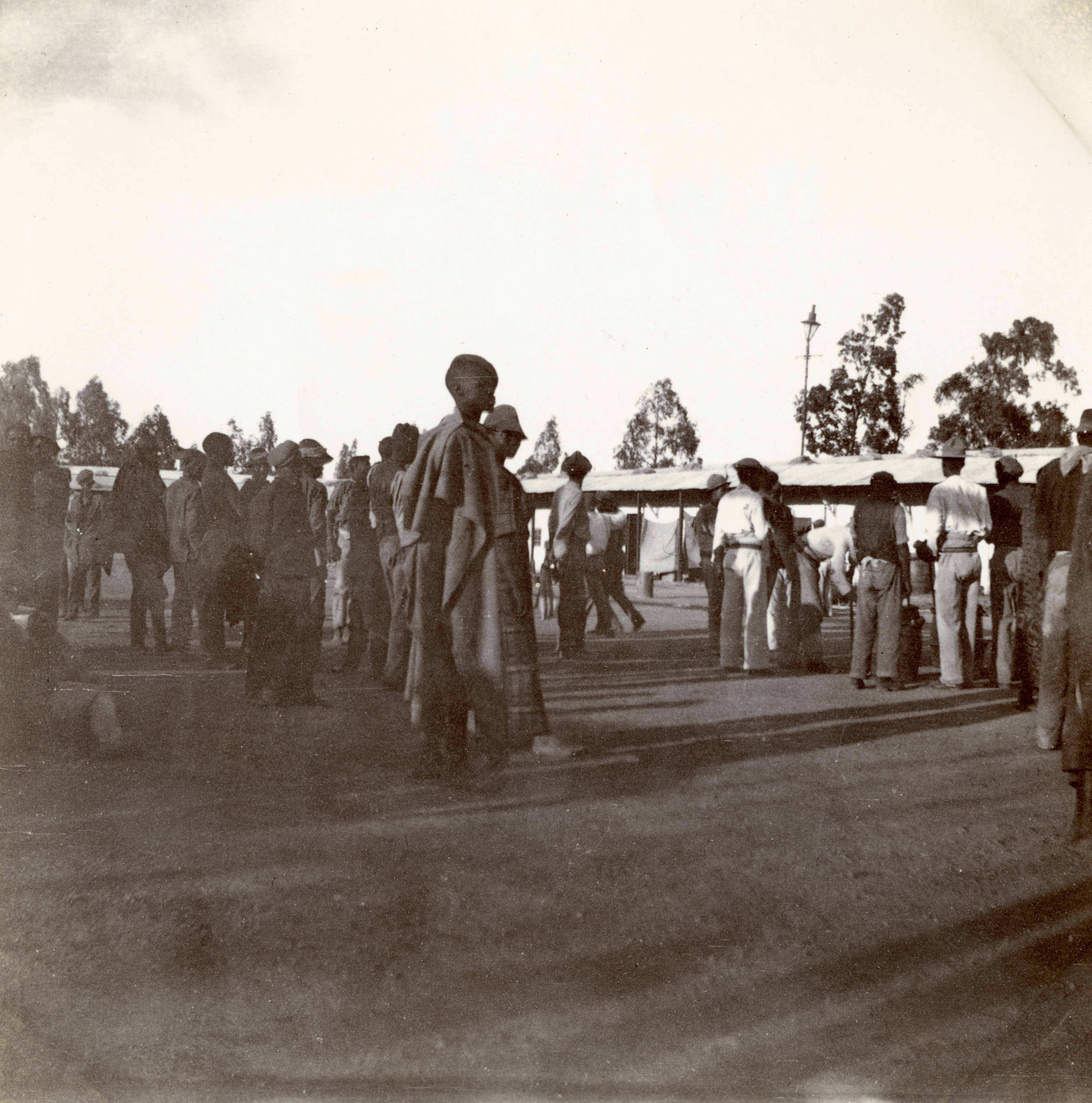 7MGF/E/1/087 Photograph, printed, paper, monochrome, groups of people standing around in a camp. Inserted at page 62. Manuscript text below image: 'In the native compound, Kimberley'.